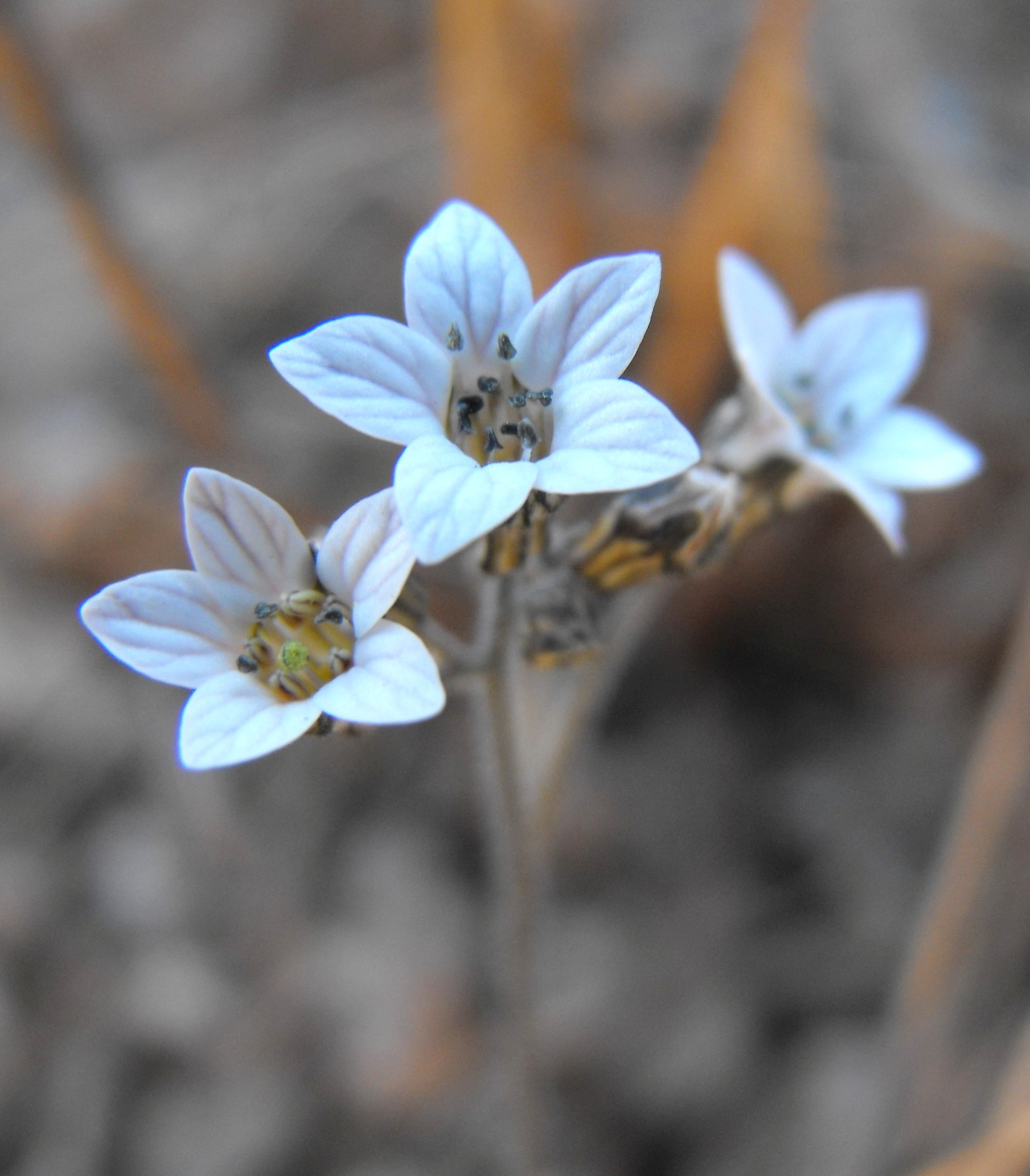 Jepsonia parryi — Coast jepsonia, Parry's jepsonia. At the Blue Sky Ecological Reserve, Poway, California, USA.